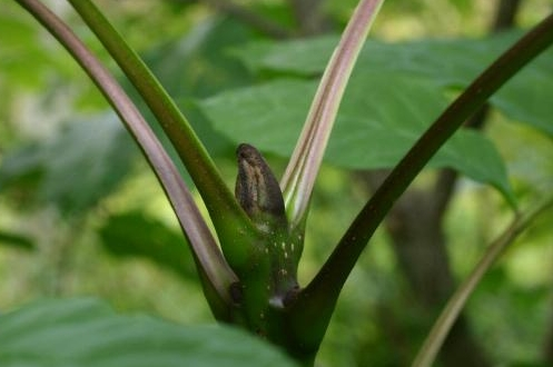 Fraxinus excelsior: Bud